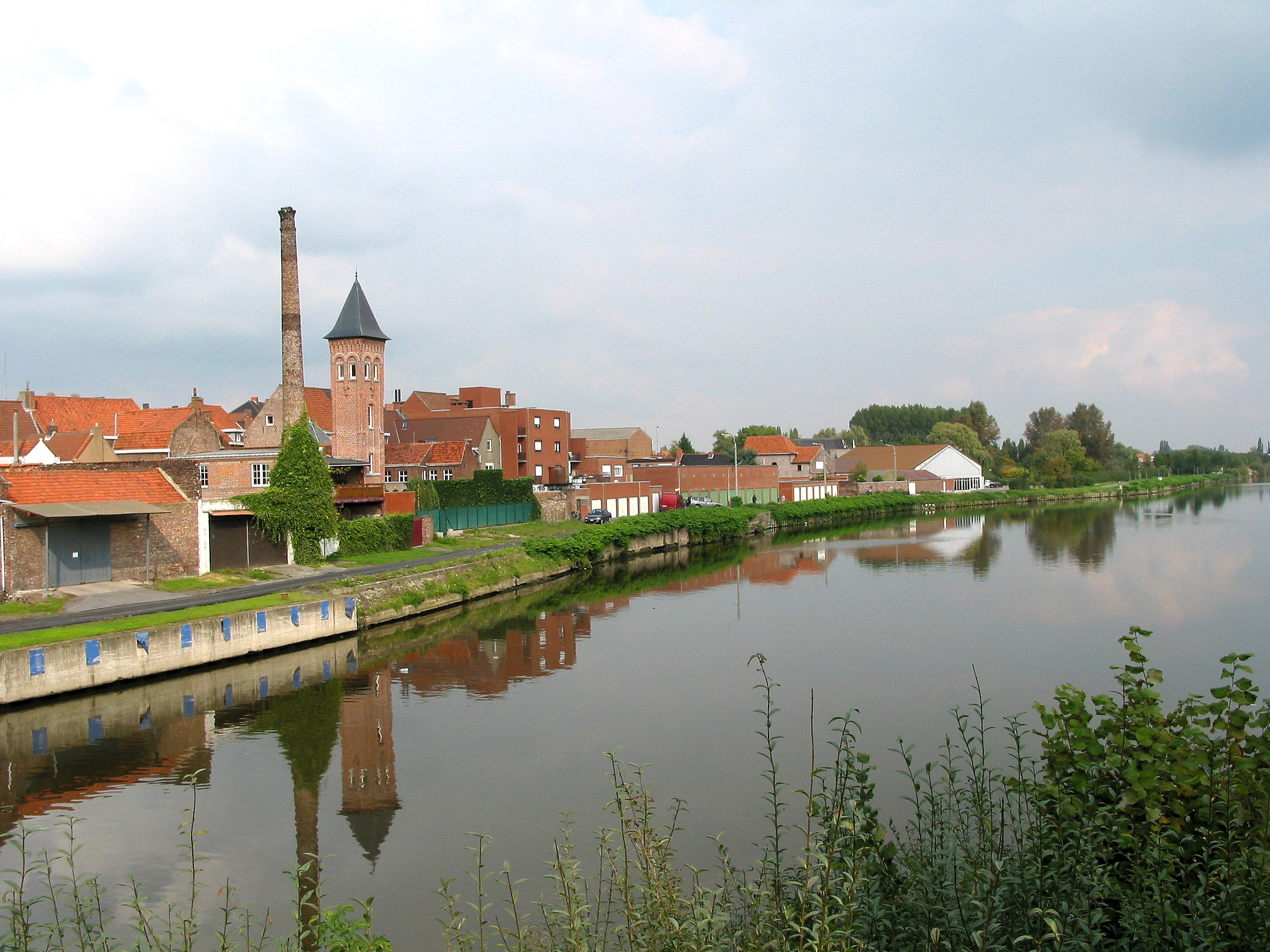 Wervik (Belgium), the Lys river.